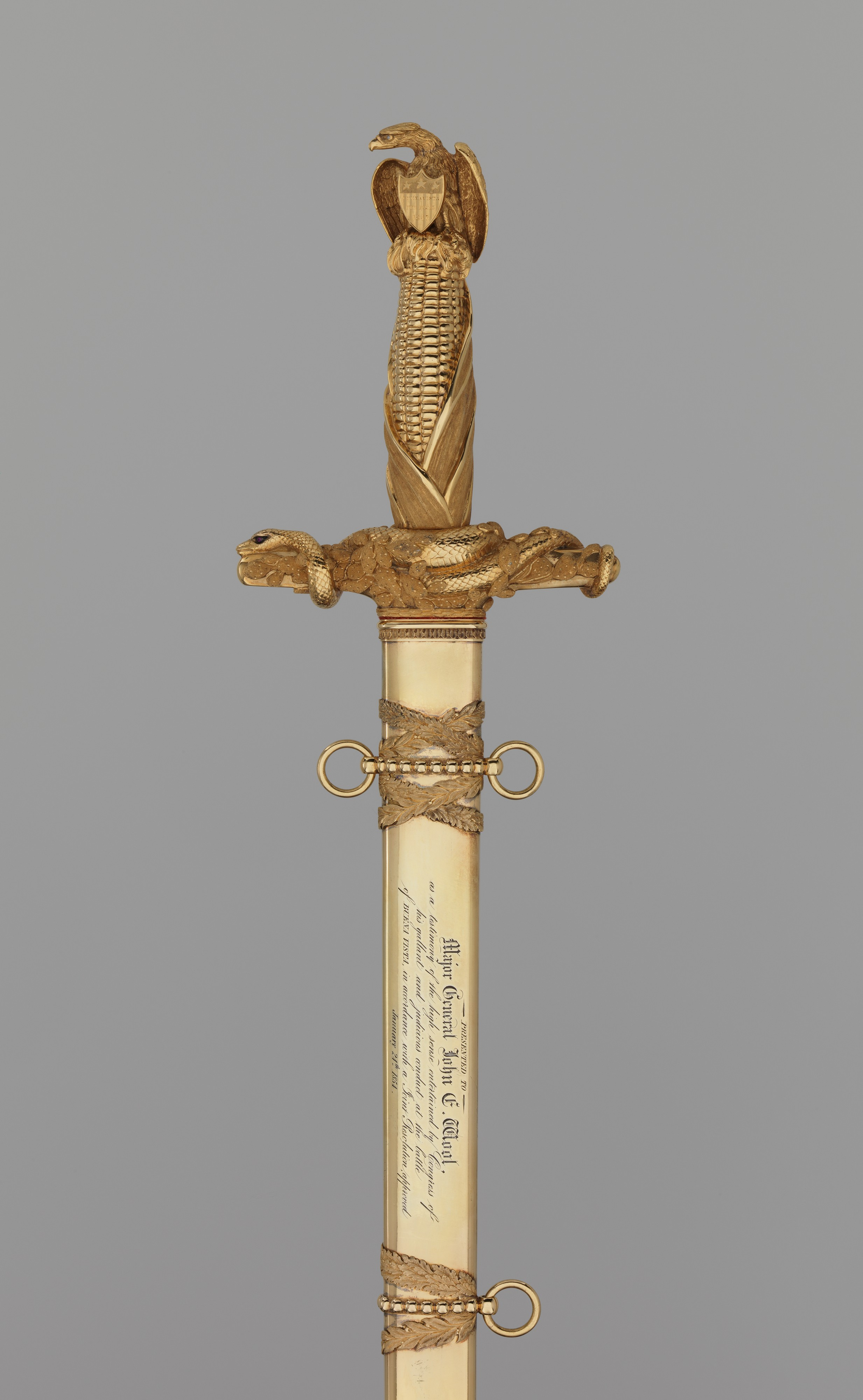 Congressional Presentation Sword and Scabbard of Major General John E. Wool (1784–1869). This sword was awarded by the United States Congress to General Wool in 1854 in belated recognition of his pivotal role in the American victory at Buena Vista (February 1847) during the Mexican War. The massive gold hilt incorporates the American eagle as the pommel, an ear of corn for the grip, and a cactus branch entwined with snakes (for Mexico) as the cross-guard. The sword's elegant proportions, novel design, sculptural conception, and superb finish make it an outstanding example of mid-nineteenth-century silversmithing. As the blade is by a Baltimore cutler, Samuel Jackson, the hilt and scabbard may be the work of a Baltimore silversmith not yet identified. The Metropolitan Museum of Art collections: Inscription: Inscribed within a shield with stars and stripes, applied to the eagle's breast on the hilt: BUENA VISTA / FEB. 22 & 23 / 1847; on the blade, within a scroll in the mouth of an eagle: E PLURIBUS UNUM; stamped on each side of the base of the blade: SAMUEL / JACKSON / BALTIMORE; engraved on the outer face of the scabbard between the ring mounts: Presented to / Major General John E. Wool a testimony of the high sense entertained by Congress of / his gallant and judicious conduct at the battle / of BUENA VISTA, in accordance with a Joint Resolution approved / January 23rd, 1854. Accession Number: 2009.8a–c Purchase, Arthur Ochs Sulzberger and Mr. and Mrs. Robert G. Goelet Gifts, 2009 L. with scabbard 39 3/16 in. (99.6 cm); L. without scabbard 38 13/16 in. (98.5 cm); L. of blade 31 7/16 in. (79.9 cm); W. 5 5/8 in. (14.3 cm). Steel, gold, brass, diamonds, rubies.